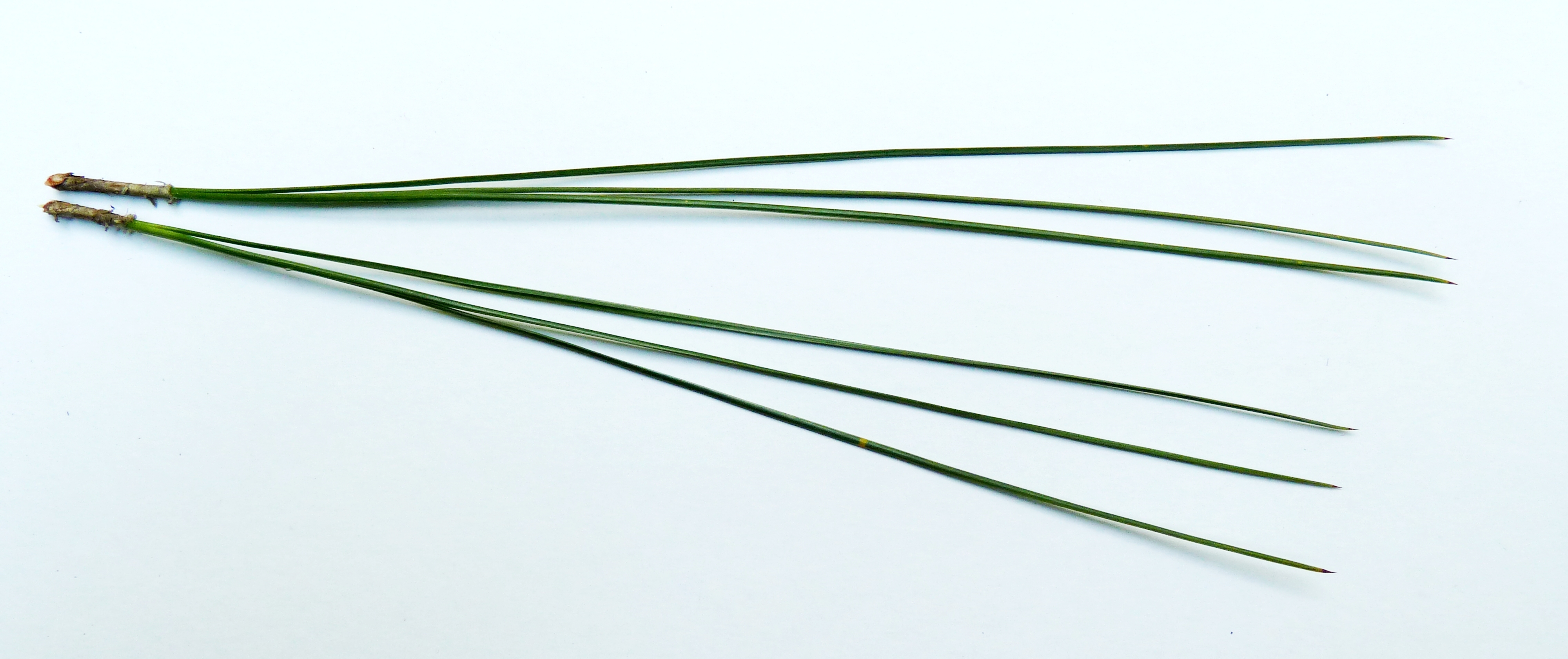 Two needle fascicles of a Loblolly pine, from Pretoria, South Africa. They contain three needles per bundle and are 18.8 and 18.4 cm in length respectively, sheaths included. Each needle lamina has a gradual 360 degree anti-clockwise twist from base to tip.